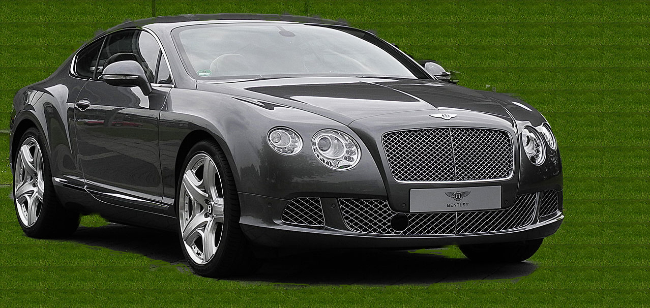 Bentley Continental GT (II) – Frontandside, 30. August 2011, Düsseldorf cropped and with new background